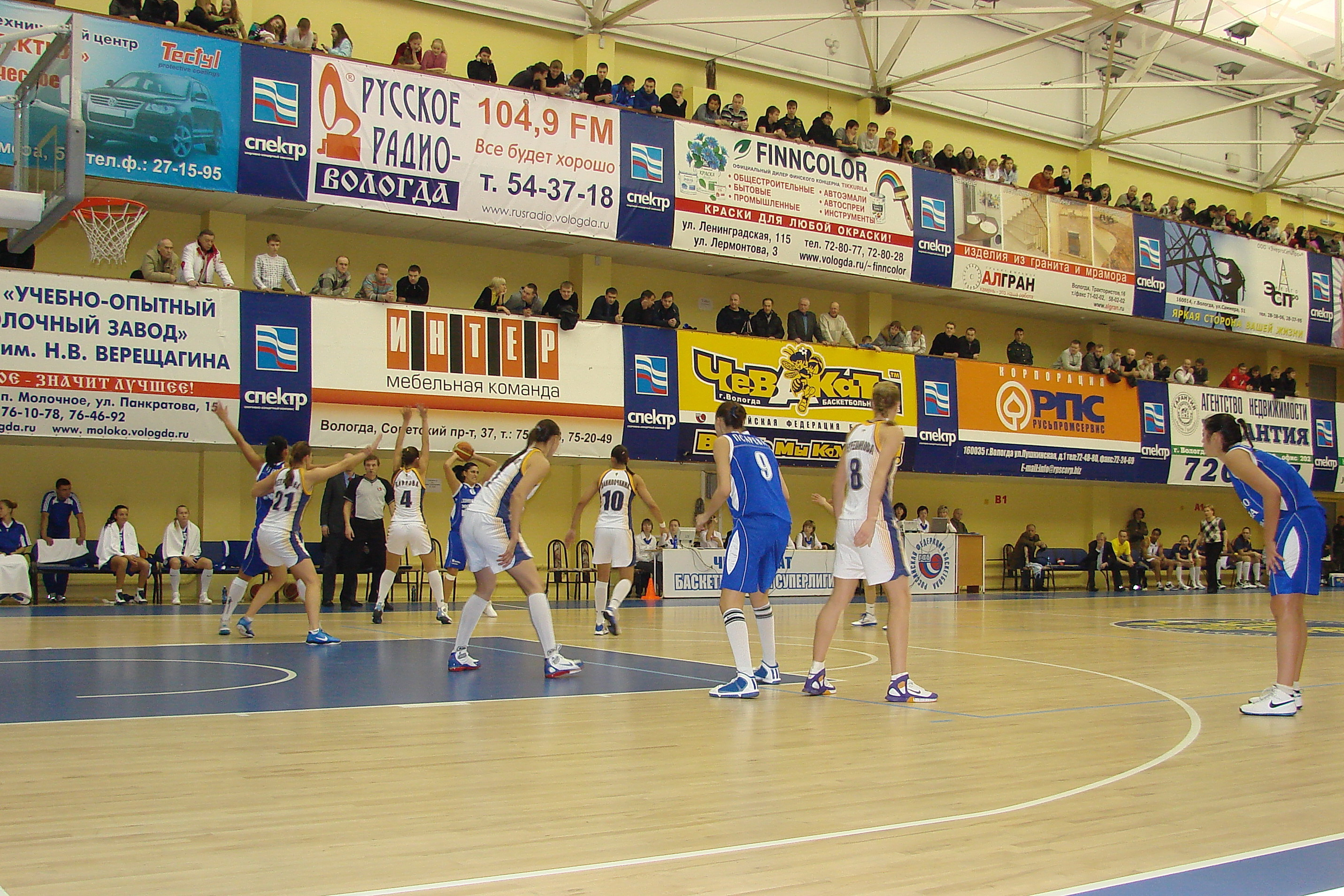 Russia, Vologda, basketball club «Chevakata»